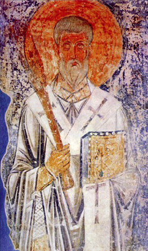 Saint Phocas of Sinope, traditionally shown with a book and a paddle. Ortodox icon (fresco).